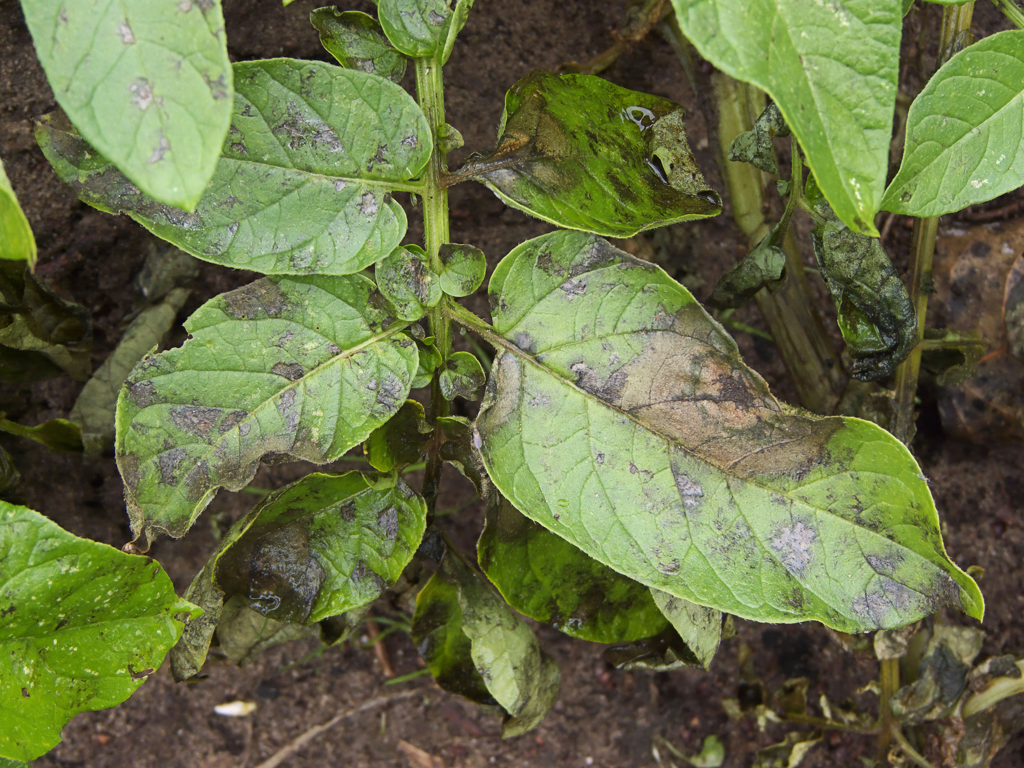 Phytophthora infestans potato 'Doré'